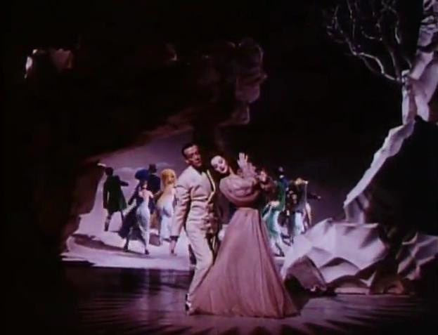 Fred Astaire & Lucille Bremer in Yolanda and the Thief - trailer (cropped screenshot)